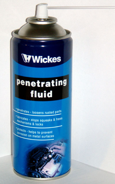 Can of penetrating fluid, image taken by author Oct 13th 2006 and released into the public domain.